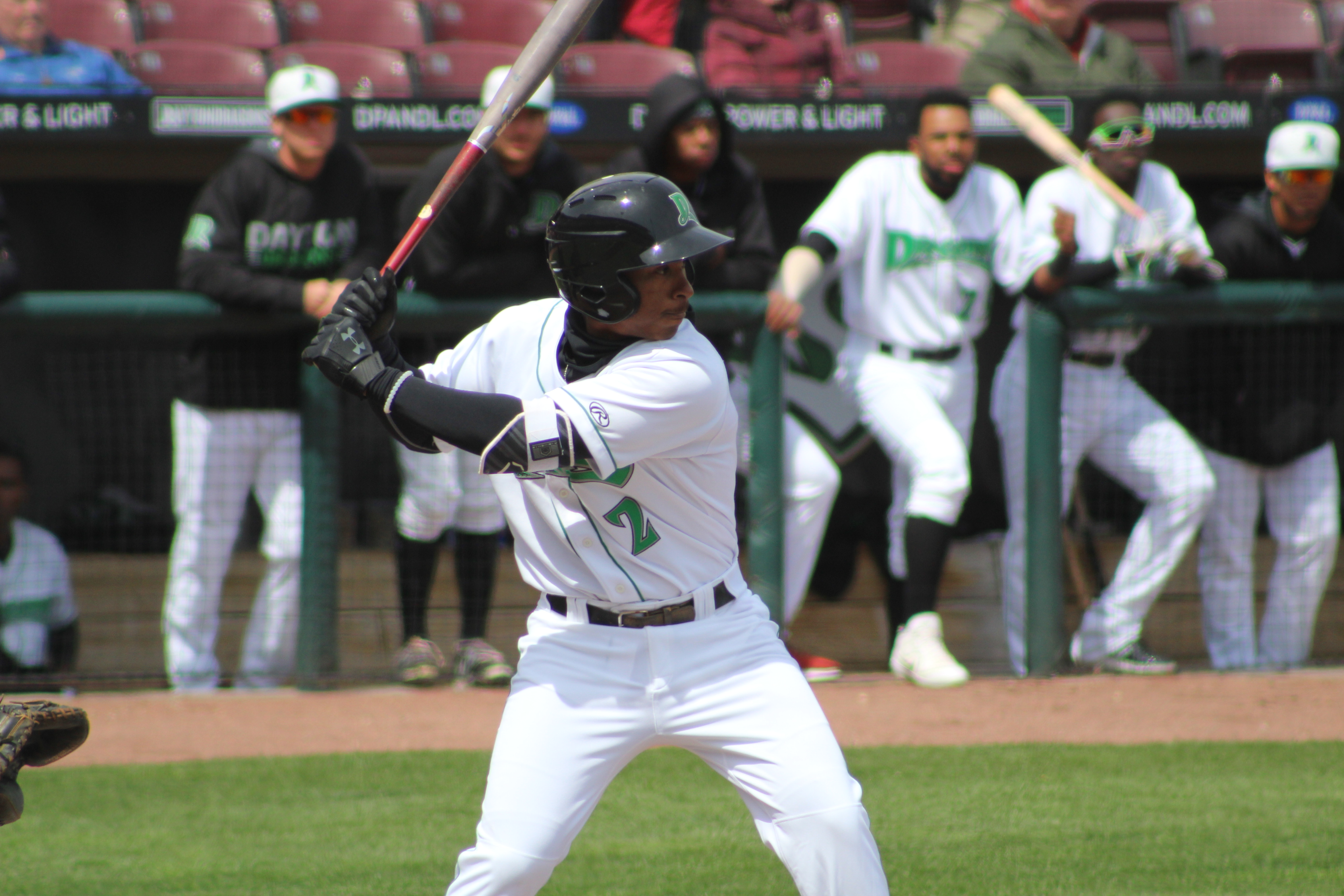 Jeter Downs with the Dayton Dragons